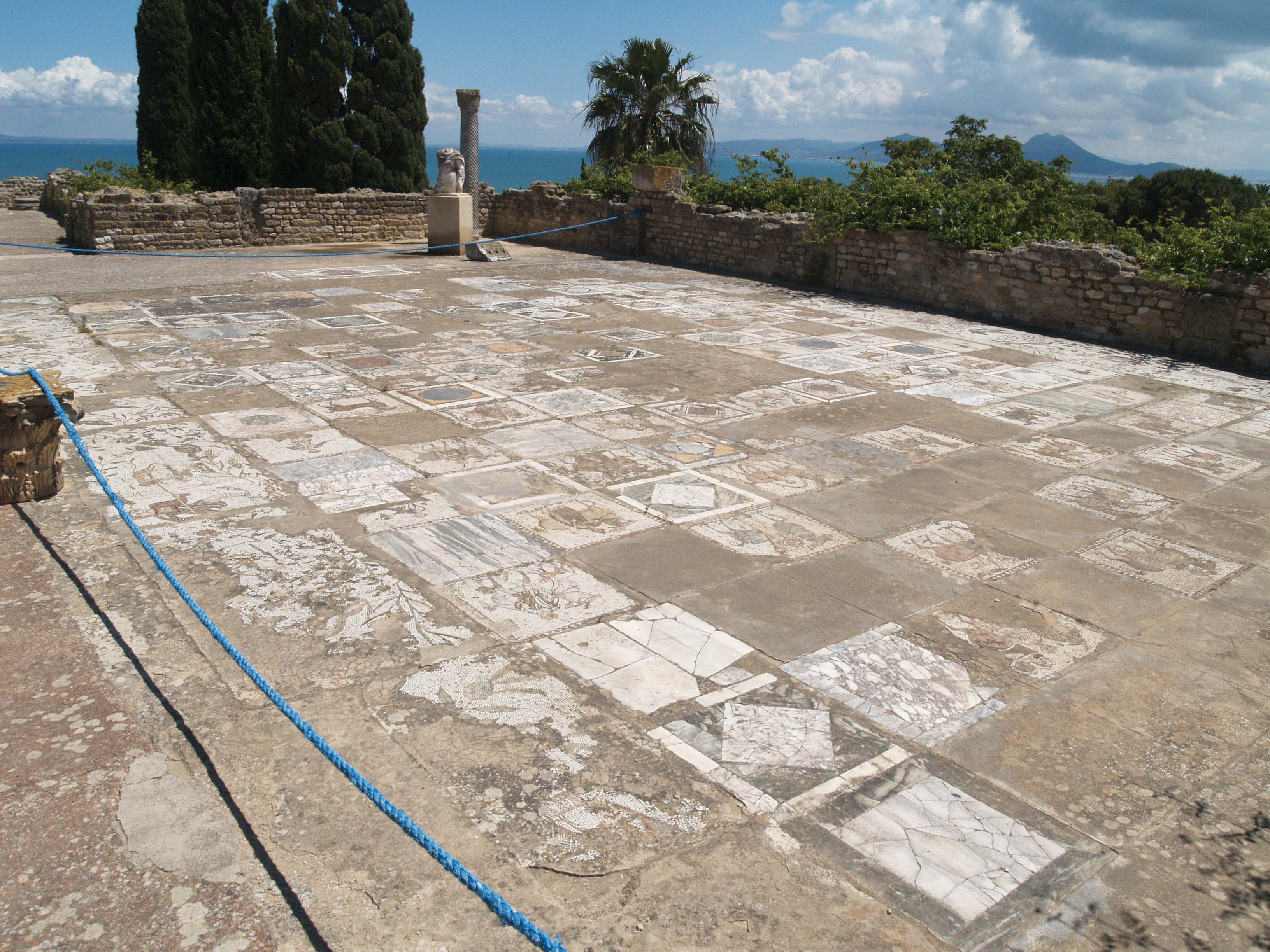 AWIB-ISAW: Mosaic Floor at Carthage, Tunisia. View of a large mosaic floor at Carthage. by Graham Claytor (2007) copyright: 2007 Graham Claytor (used with permission) photographed place: Carthago, Karthago (Carthage) [1] Published by the Institute for the Study of the Ancient World as part of the Ancient World Image Bank (AWIB). Further information: [2].